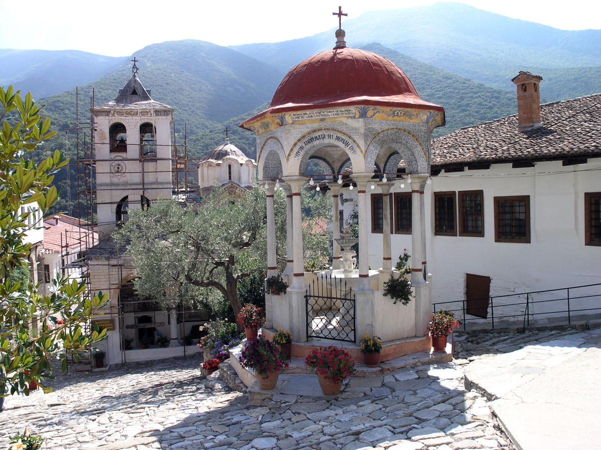 Iera Moni Ioannou Prodromou near Serres, Greece. Photography taken by Marsyas on 07/31/2004.